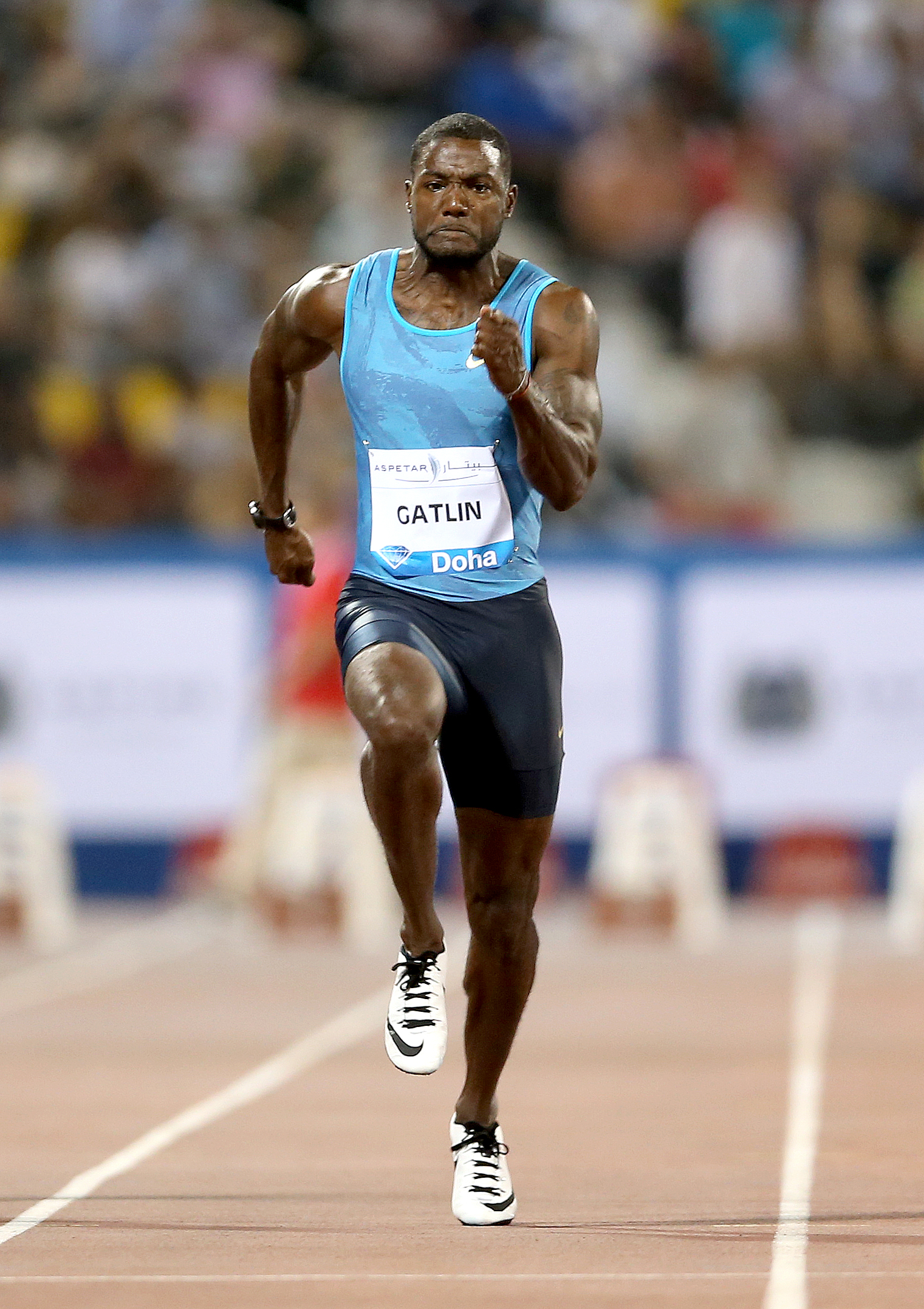 American Justin Gatlin en route to 100M men's gold at the Doha Diamond League meet. Pic by Mohan